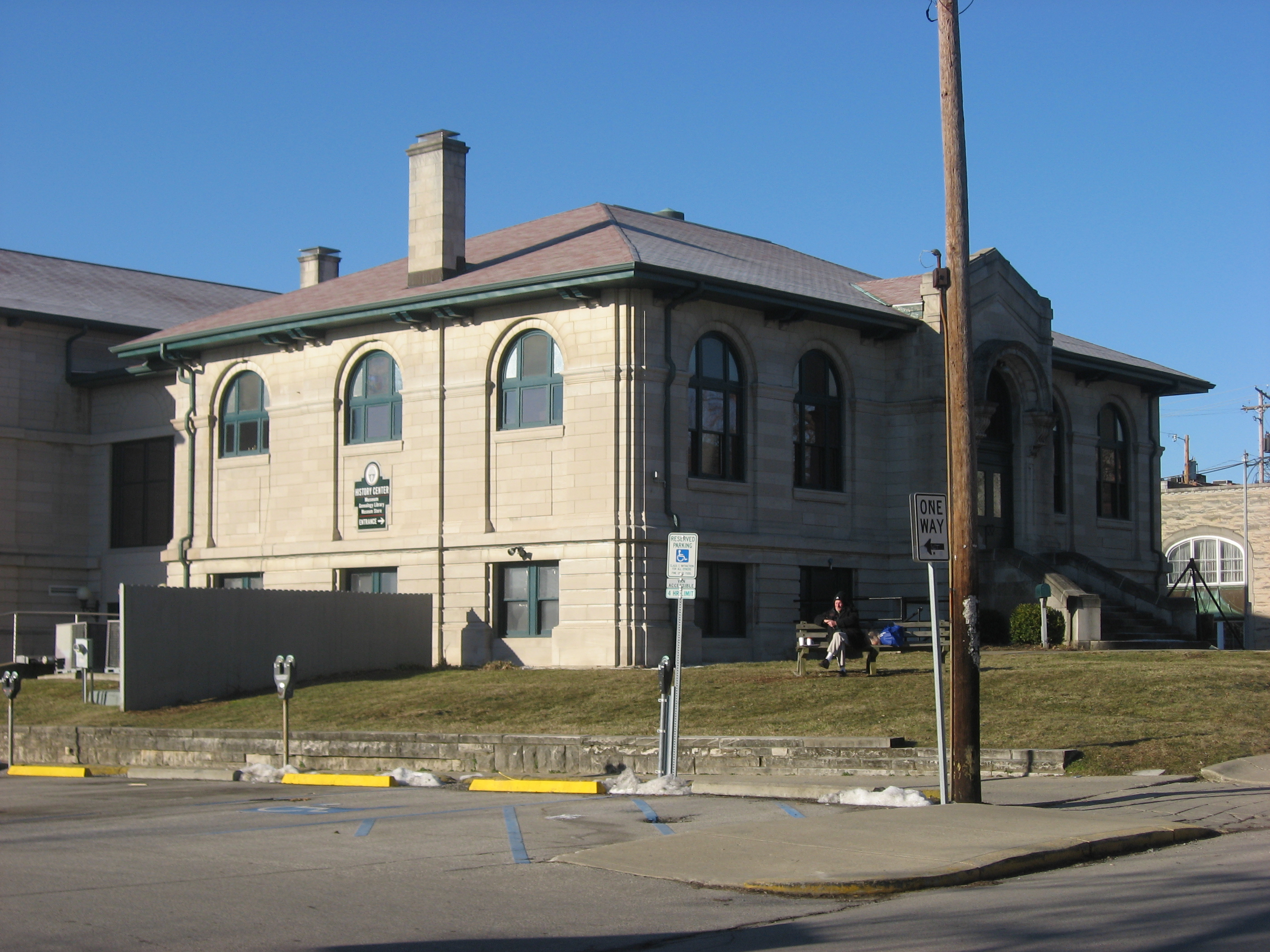 Front and eastern side of the Monroe Carnegie Library, located at 200 E. Sixth Street in downtown Bloomington, Indiana, United States. Built in 1917 and now a museum, it is listed on the National Register of Historic Places, and it is the core of the locally-designated Old Library Historic District.